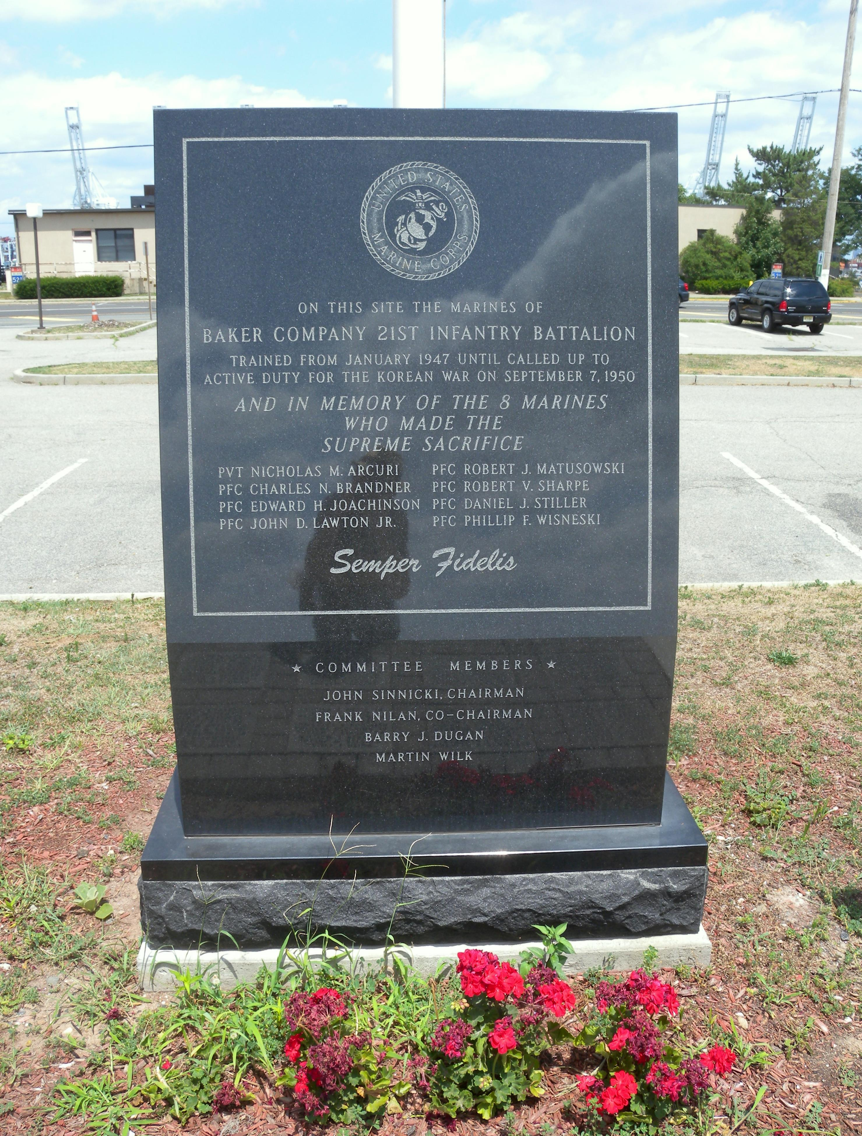 Looking north at Marine Corps war memorial on a clouding up midday.